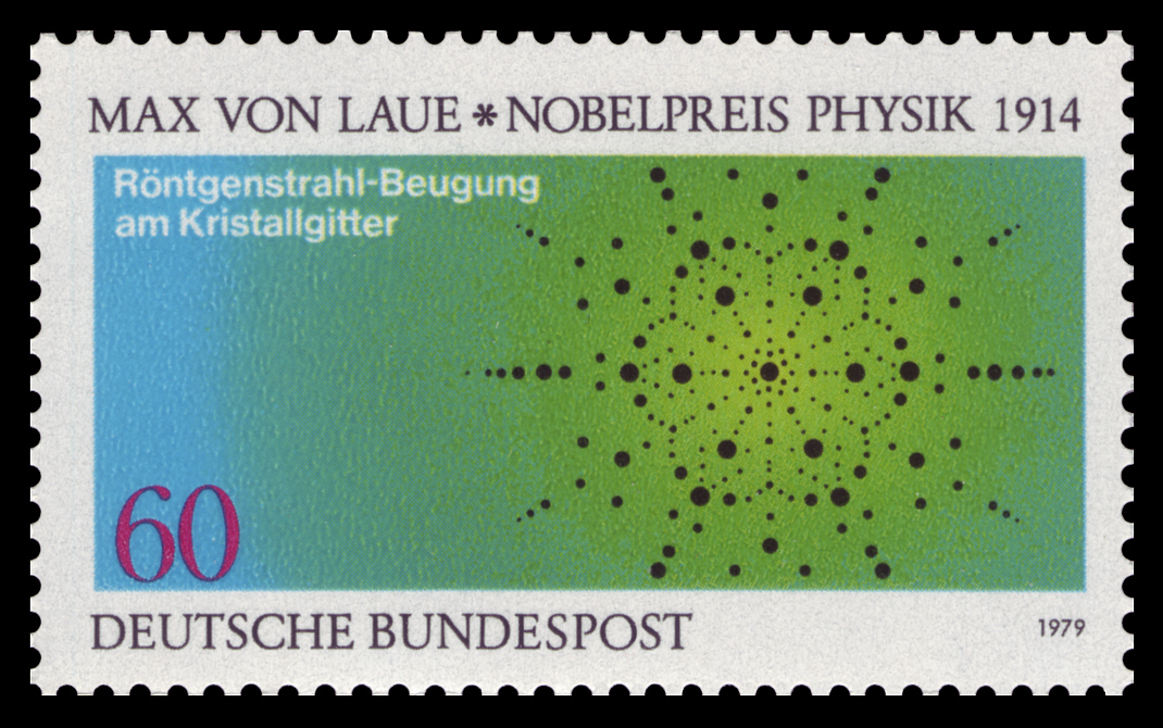 stamp series for nobel laureates of physics and chemistry